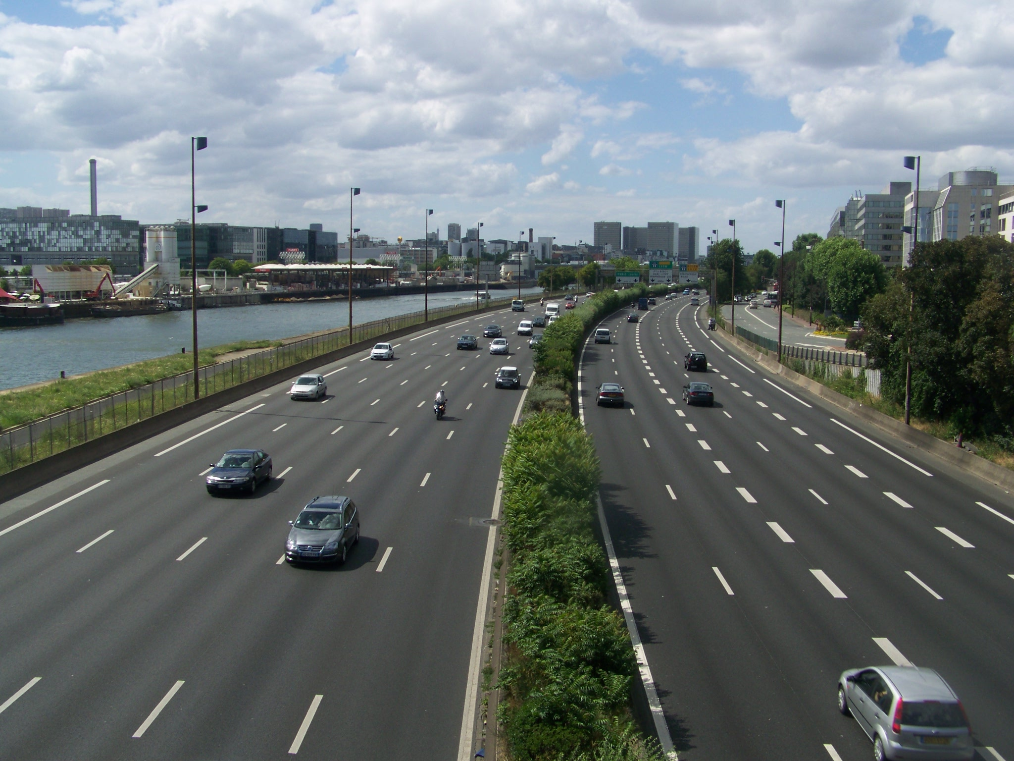 French motorway A4 arriving at Paris (commune of Ivry stands on the left, and Charenton on the right).